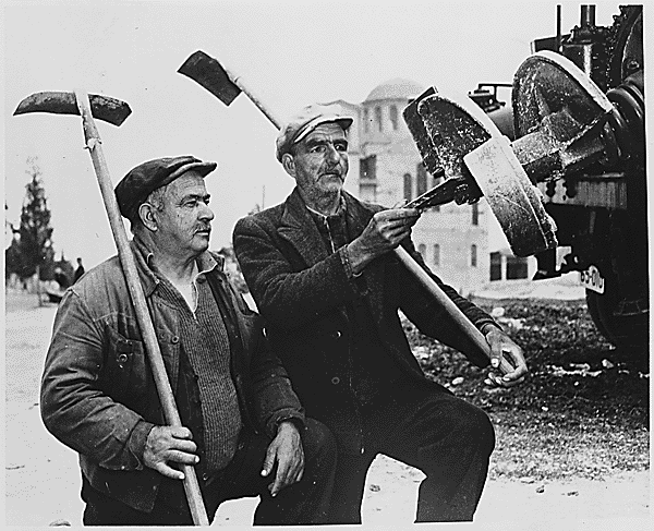 Athens, Greece. Twenty-six telecommunications vehicles, of the lates design, have arrived here to hasten the rehibilitation of Greece's telecommunications system, 60% destroyed during the occupation and guerrilla war. Two Greek workmen, carrying crude tools of their trade, inspect the fine alloy-steel blade on one of the new earth-boring trucks, ca. 1948 - ca. 1955 ARC Identifier 541704 / Local Identifier 286-ME-7(6) Item from Record Group 286: Records of the Agency for International Development, 1948 - 2003